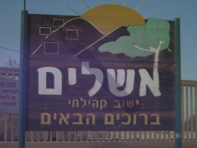 Sign at entrance to Ashalim